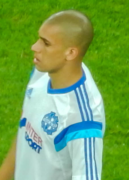 Doria, brazilian football player of Olympique de Marseille